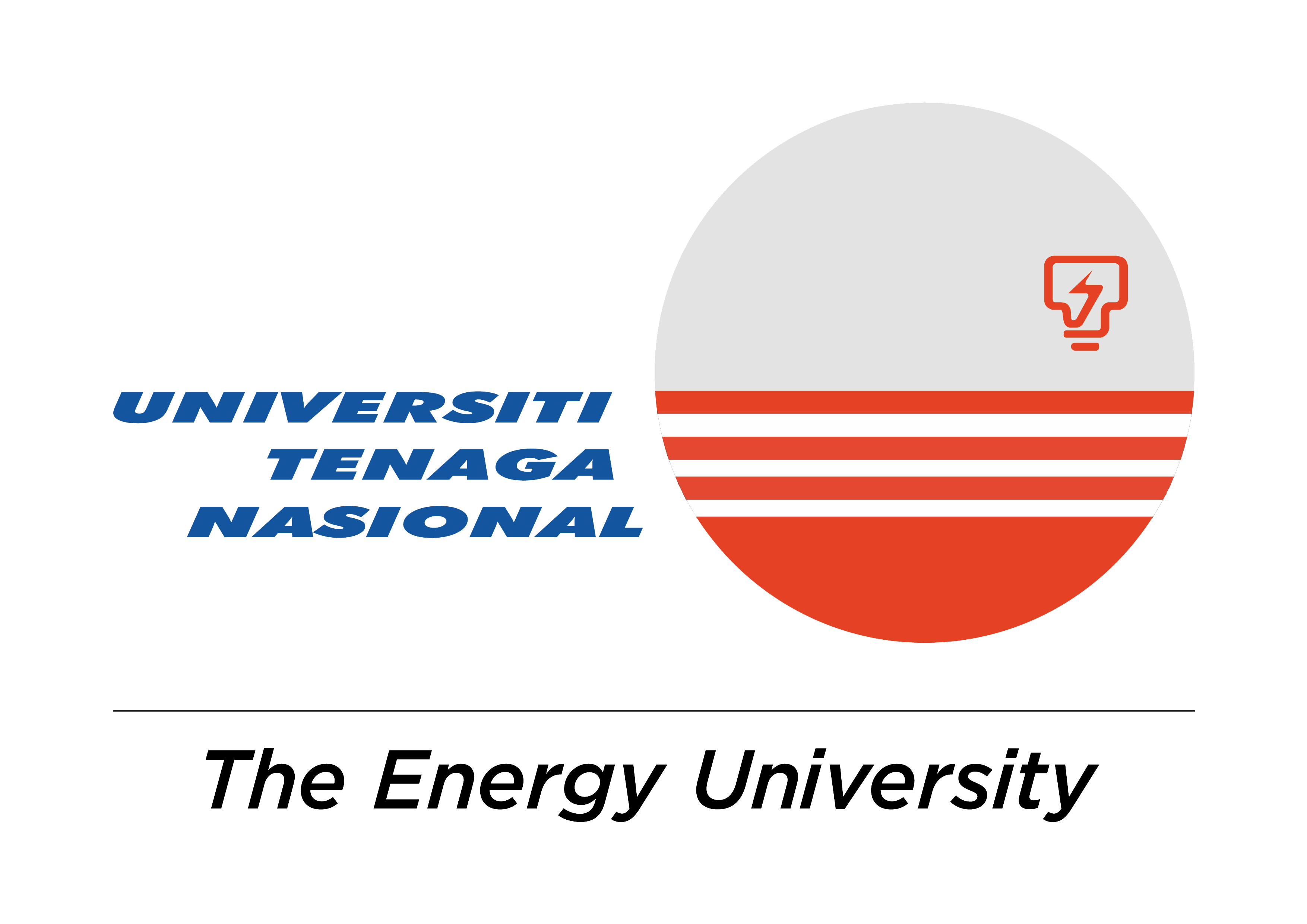 Universiti Tenaga Nasional Logo